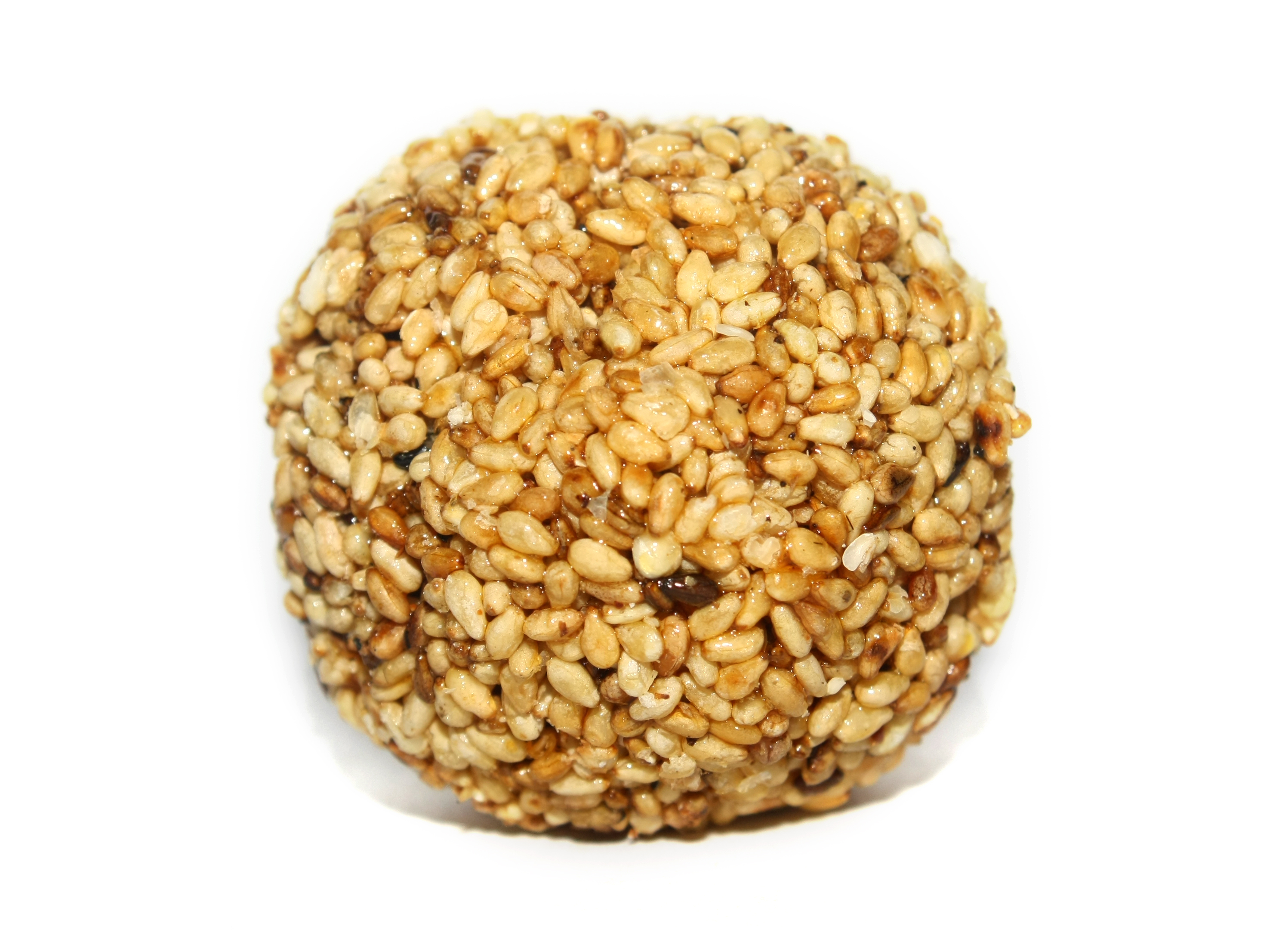 Sesame ball in Sri Lanka. Diameter about 1 inch